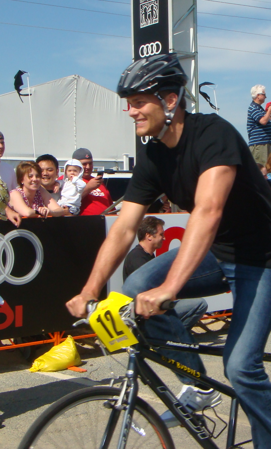 Tom Brady rides a bicycle at "Buddy Ride" charity event in Hyannis, Massachusetts, May 30, 2009.